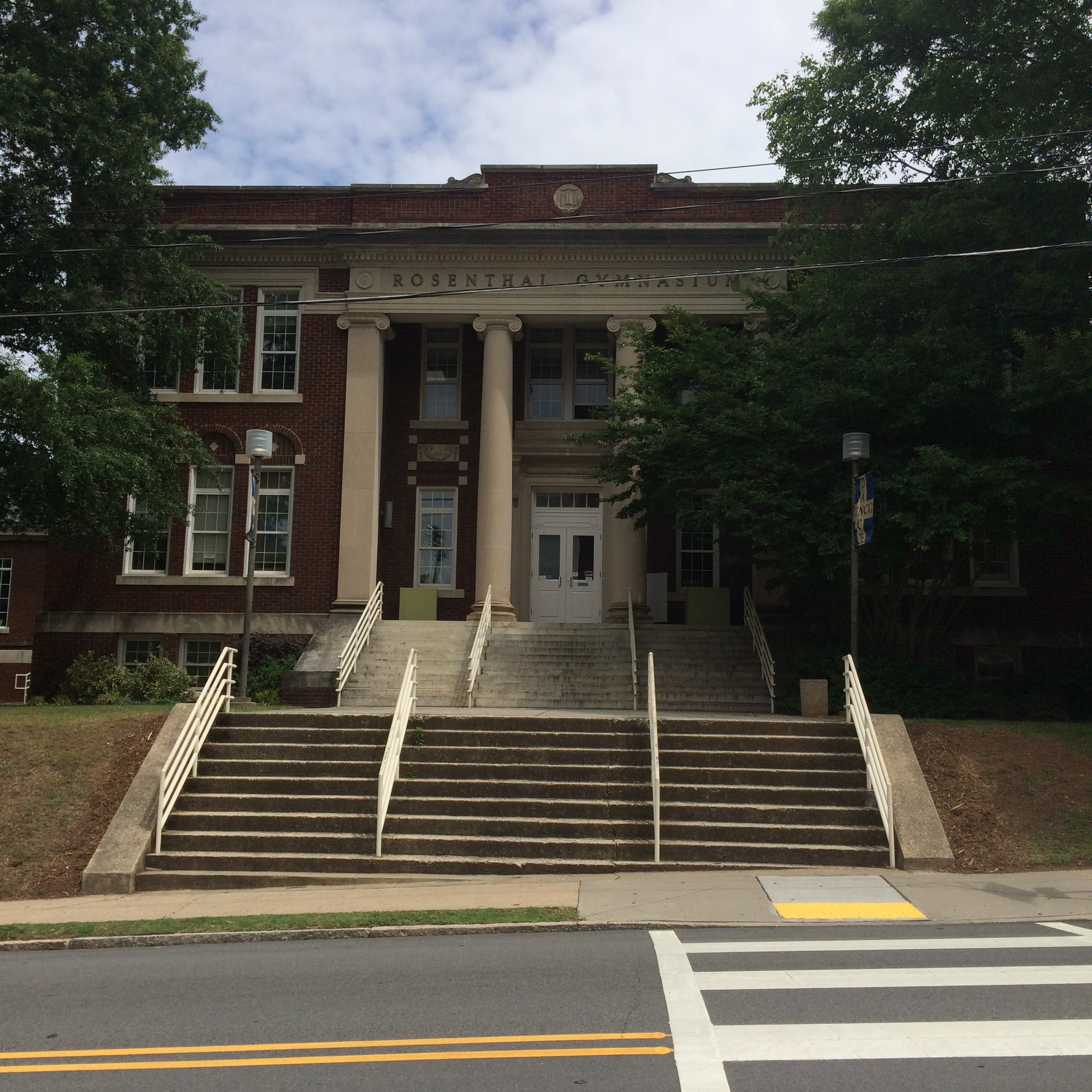 Mary Channing Coleman Building at the University of North Carolina at Greensboro